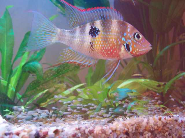 Thorichthys ellioti with fry